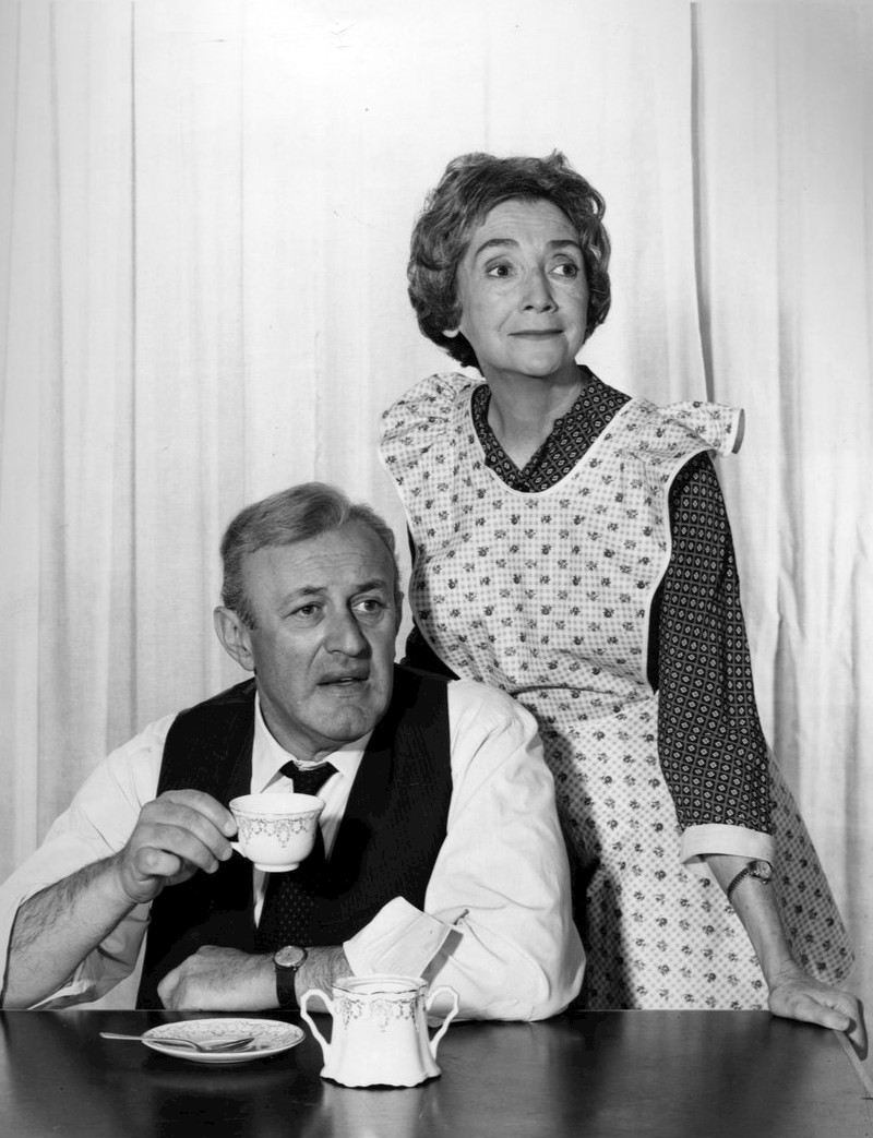 Photo of Lee J. Cobb and Mildred Dunnock from the 1966 television presentation of Death of a Salesman. The program was rebroadcast in March 1967.